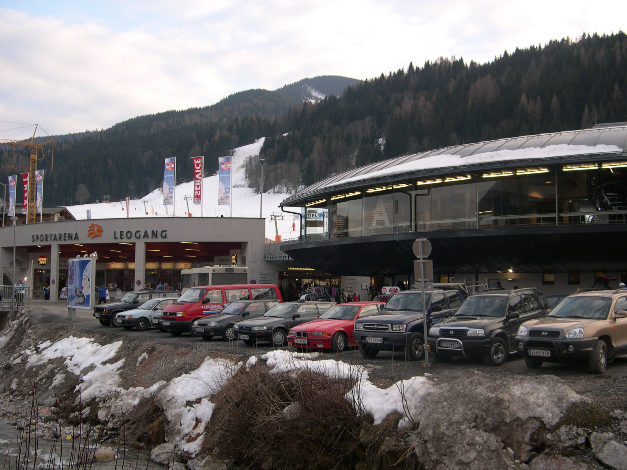 Valley station of "Asitzbahn" in Leogang (Austria) by Winter